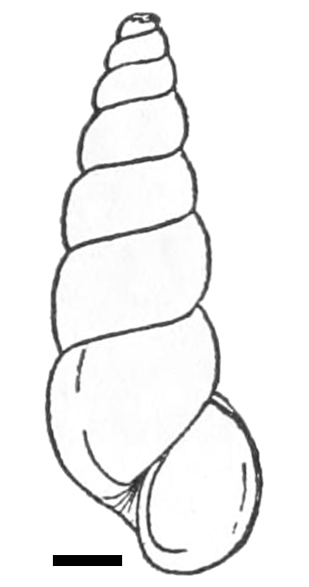 drawing of apertural view of a shell of Oncomelania hupensis nosophora. The scale is 1 mm.